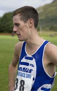 Robb Jebb, 2008 Ben Nevis Race